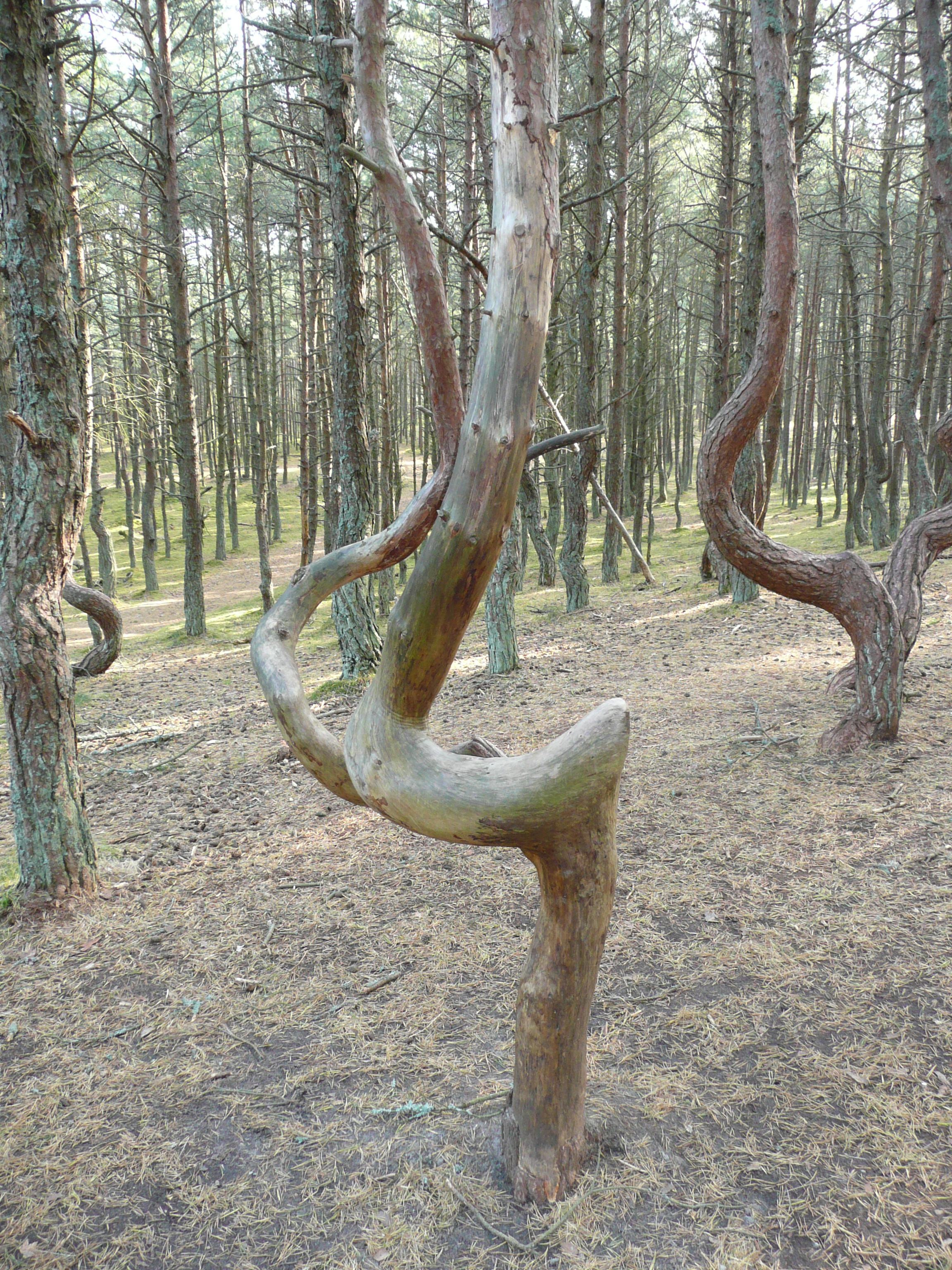 Drunk Forest